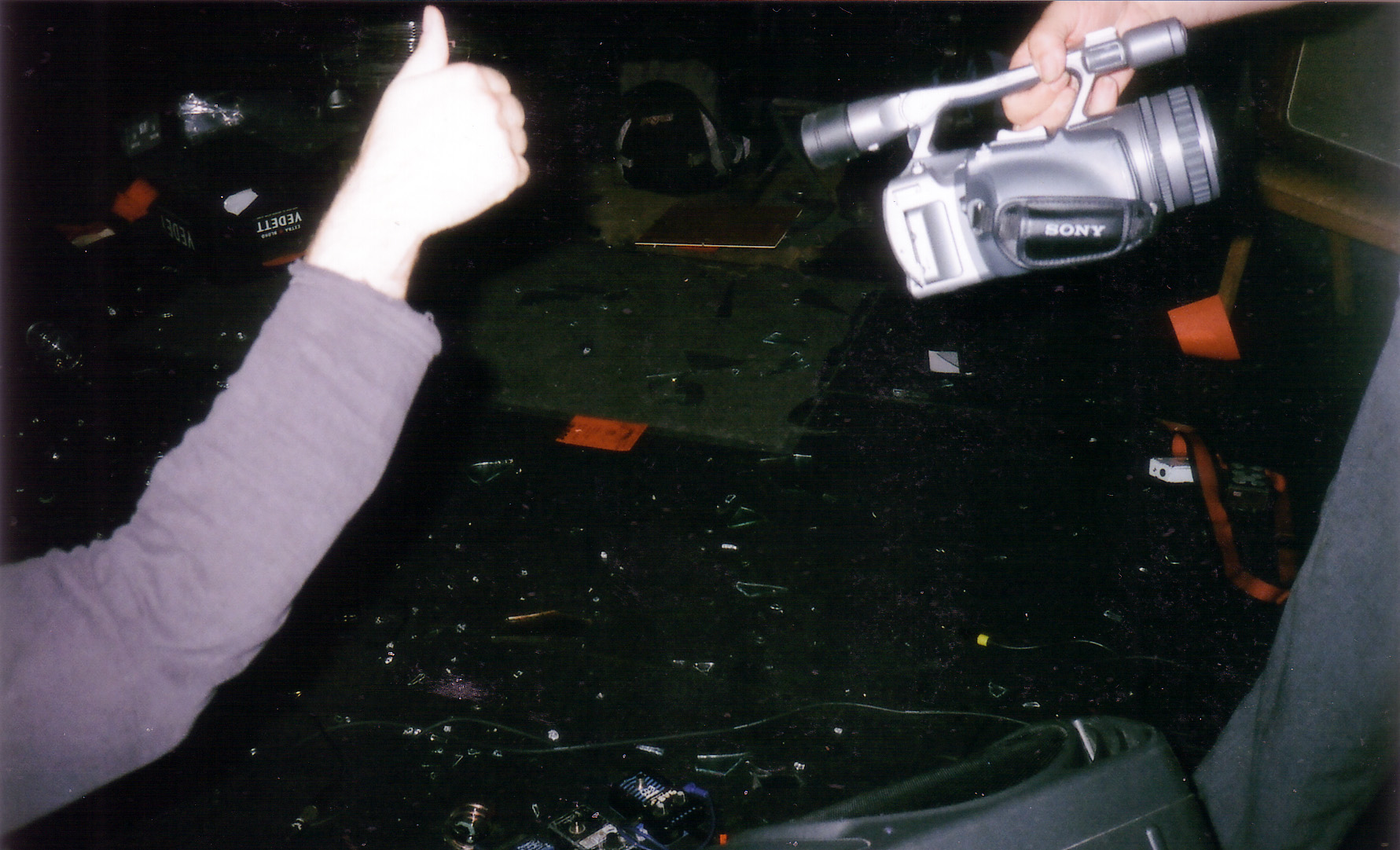 justice yeldham playing at the Old Blue Last Pub, the aftermath